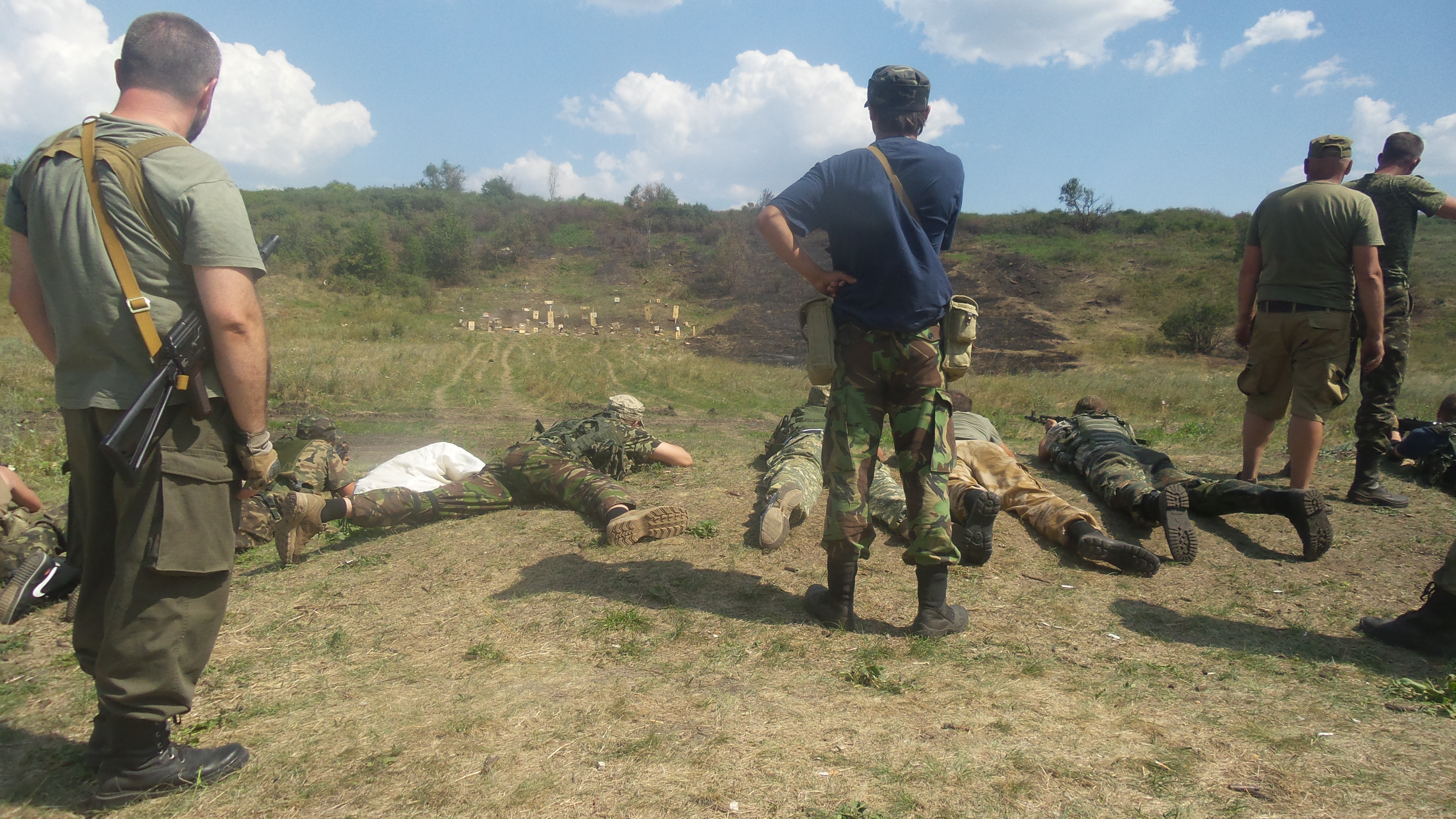 Aidar Battalion. Lugansk region, Ukraine.